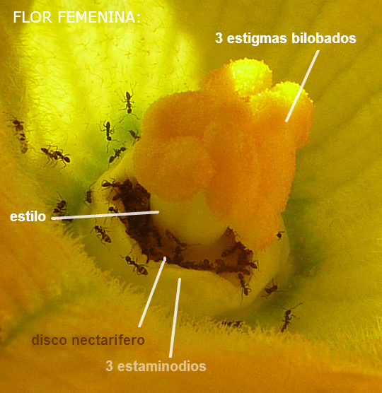 Cucurbita pepo "zapallo de Angola" semillería La Paulita. Sown in september 2014 in Fortín Olavarría, Buenos Aires province, Argentina.